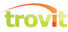 logo of trovit